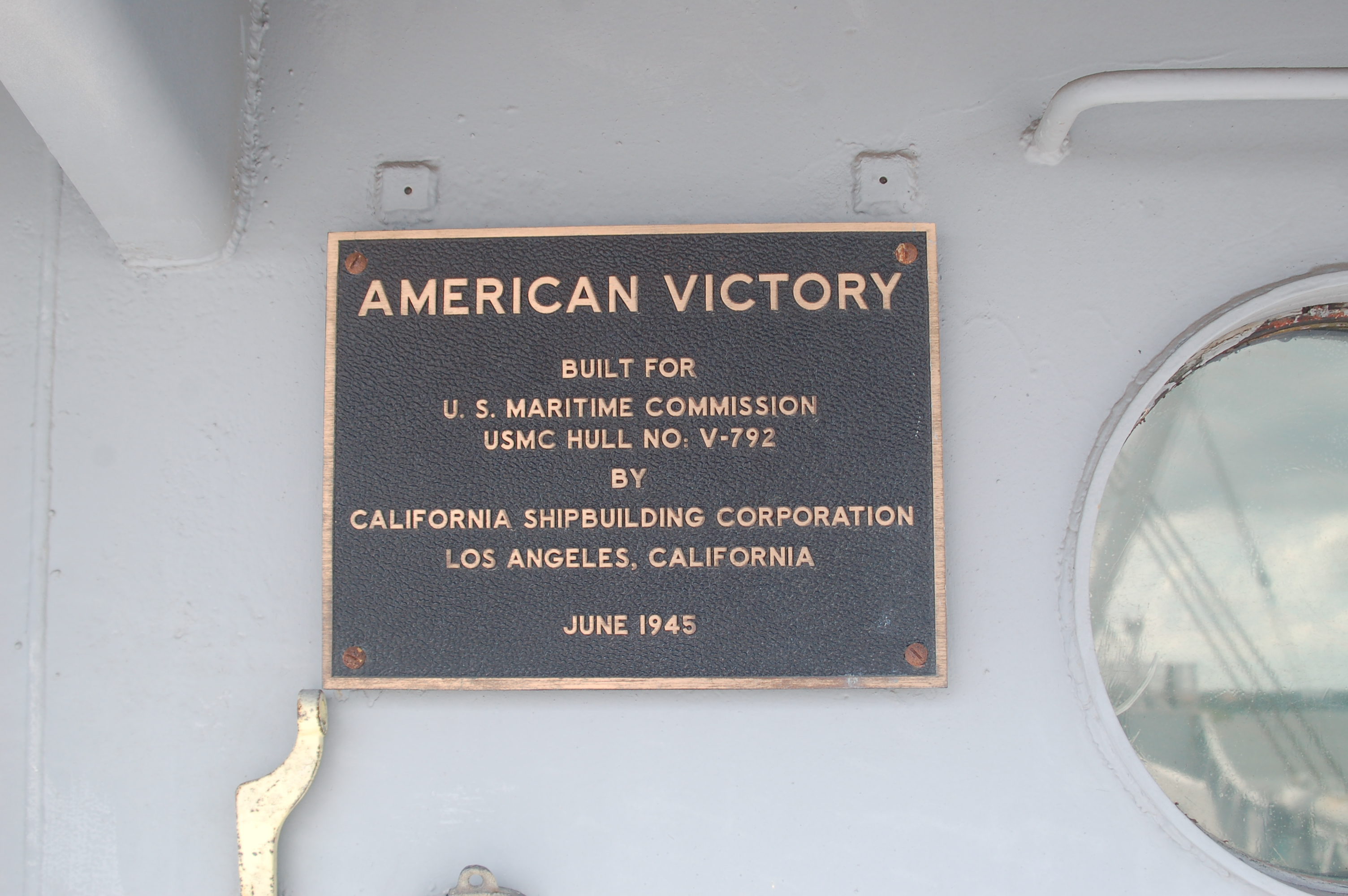 Name plaque on the American Victory V-792